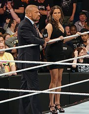 WWE co-owners/executives Triple H and Stephanie McMahon